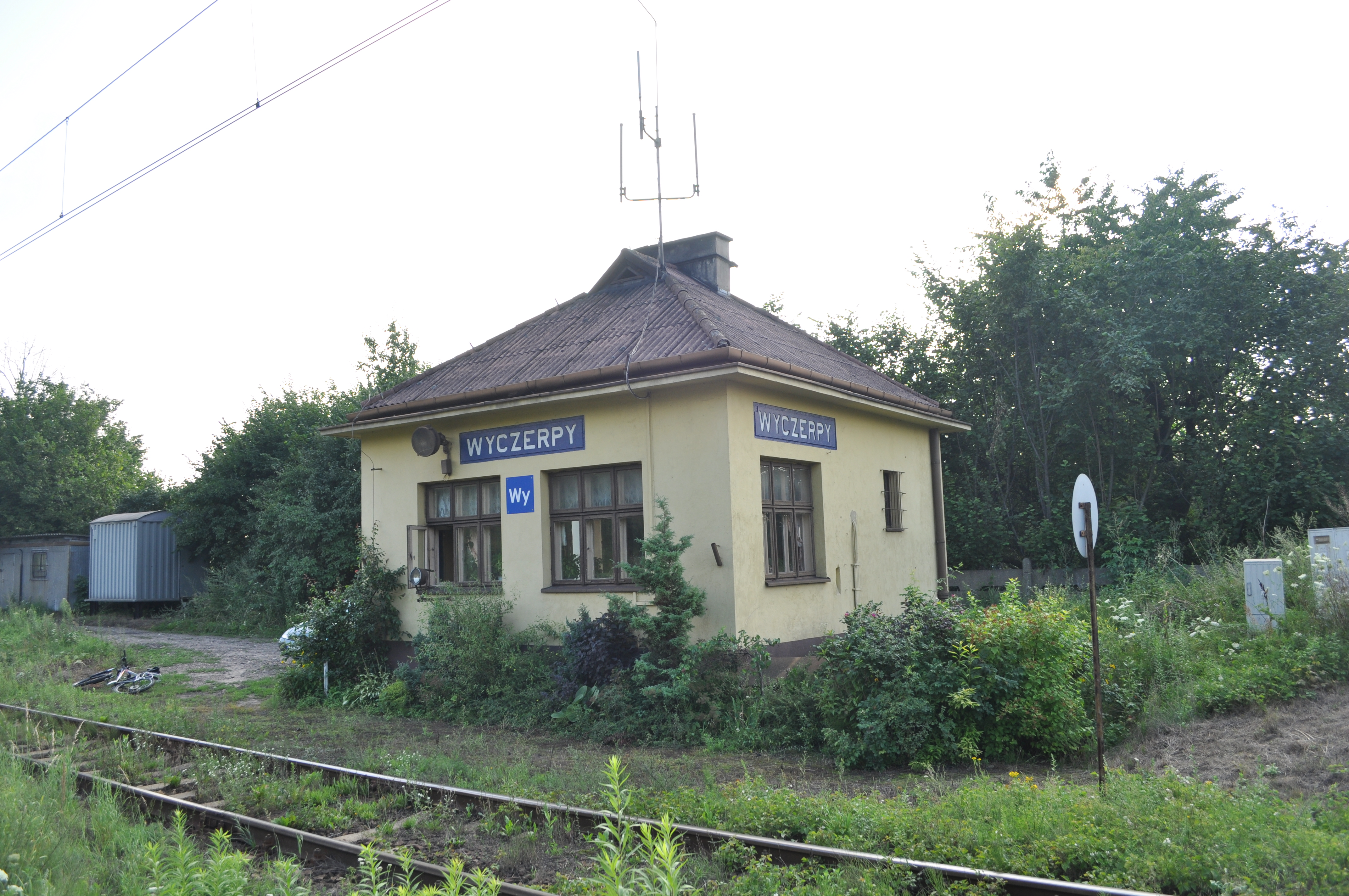 Częstochowa Wyczerpy train station